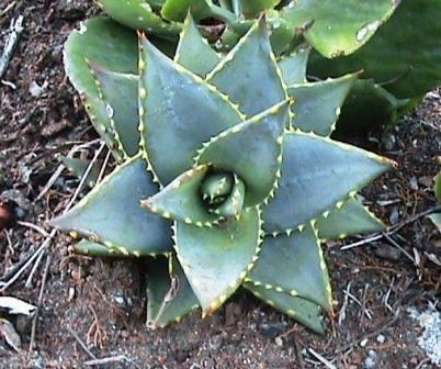 A small Rubble Aloe - Aloe perfoliata AKA Aloe mitriformis - growing in Cape Town.